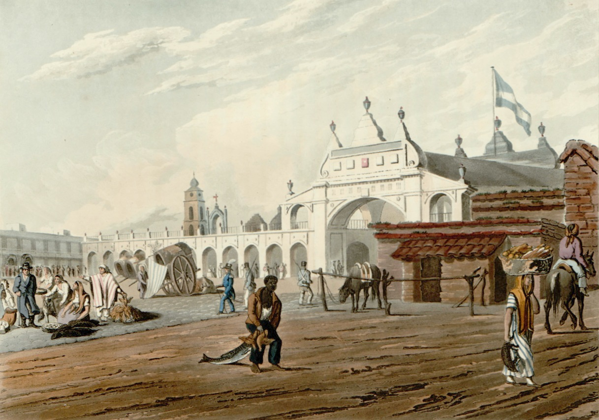 Market Place, from "Picturesque illustrations of Buenos Ayres and Monte Video, consisting of twenty-four views: accompanied with descriptions of the scenery, and of the costumes, manners, &c., of the inhabitants of those cities and their environs". "The Market Place in Buenos Aires, Argentina is covered by shops on the sides of the piazza and is divided into different sections of fruits and vegetables, beef, poultry, and spirits. High society women did not enter the market and sent servants or trusted slaves to the market place."